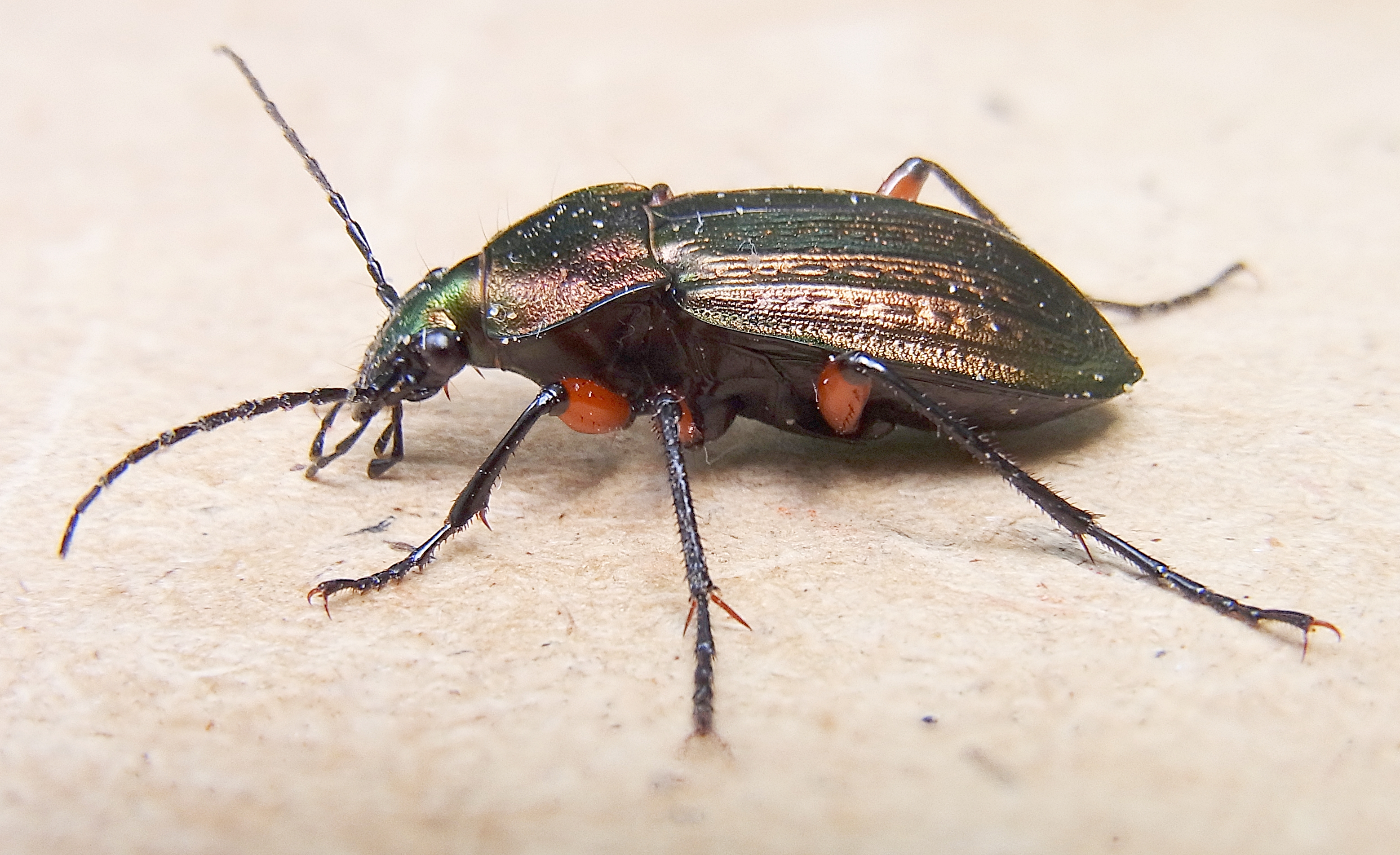 Carabus arcensis ssp. sylvaticus from France, about 30 km north-east of Lyon in forest 'Foret de la Réna'